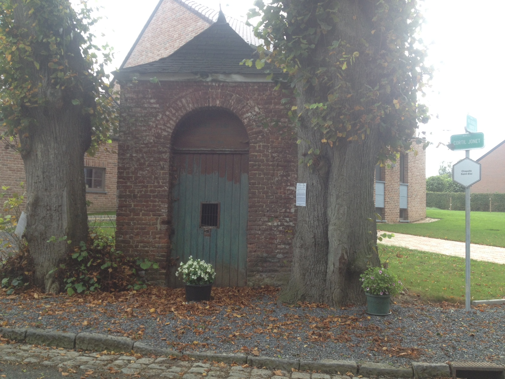 Chapelle St eloi